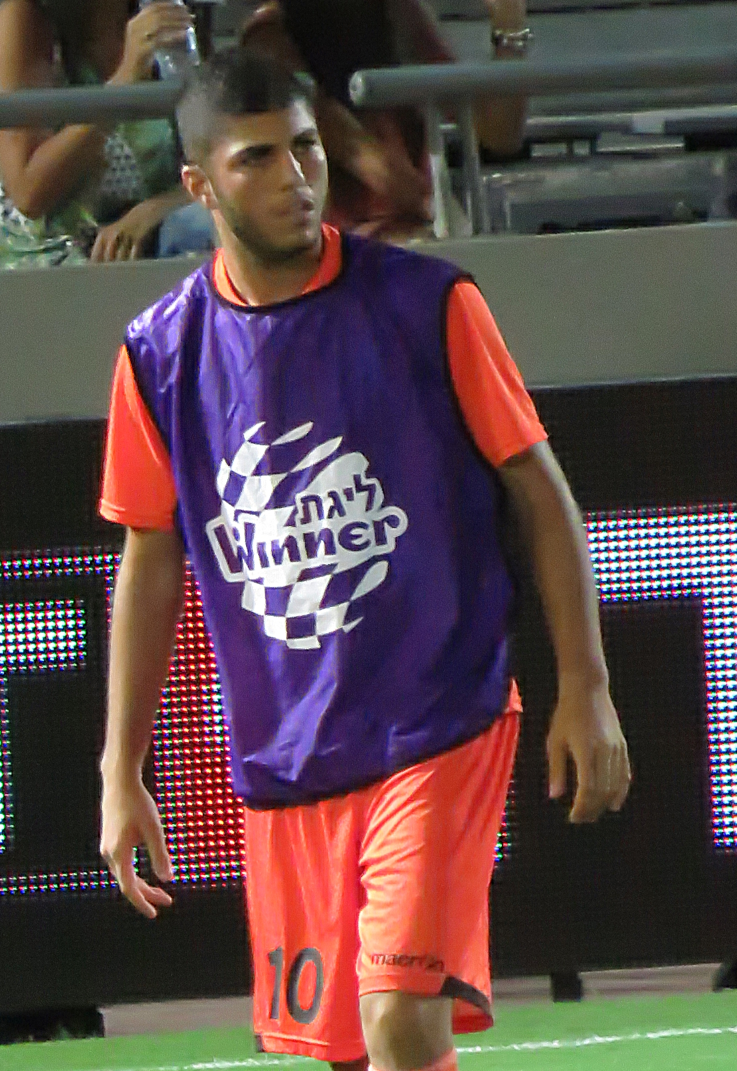 Bnei Yehuda Tel Aviv vs. Beitar Jerusalem - 19 September, 2015